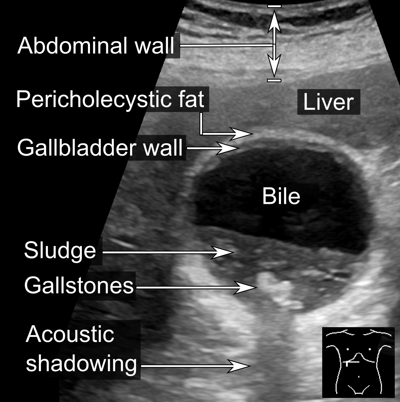 editAbdominal ultrasonography of an 83 year old man who experienced biliary colic two weeks prior.It shows a gallbladder wall that is almost pathologically thickened, at 3 mm. However, there is no apparent edema in the pericholecystic fat. The gallbladder contains biliary sludge, as well as gallstones, which create acoustic shadowing. There is thus gallstones without current cholecystitis. Without annotations Annotated raster (.jpg) Annotated vector (.svg)